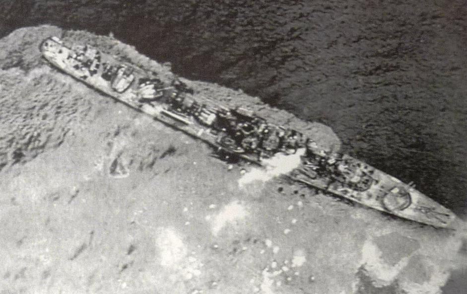 IJN destroyer Asashimo shortly before sinking after US Navy aircraft attacks